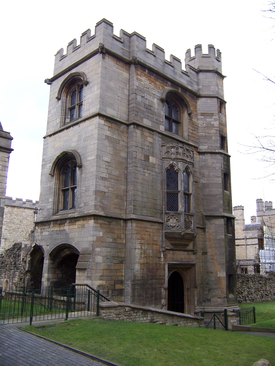 Bishop's Palace, Lincoln (England) own work